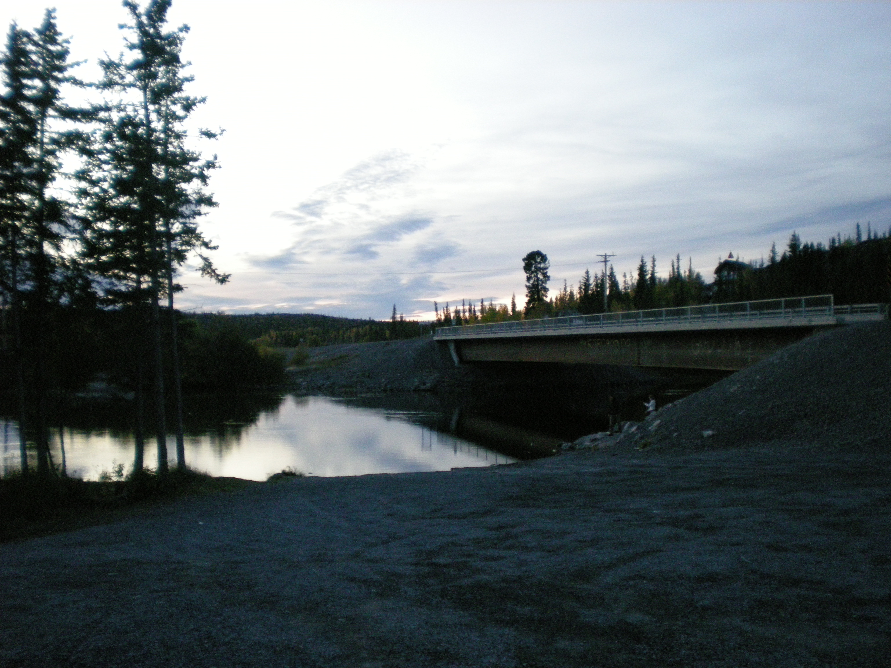 The Yellowknife River, about 9.1 km (5.7 mi) from Yellowknife, where it passes under the Ingraham Trail.